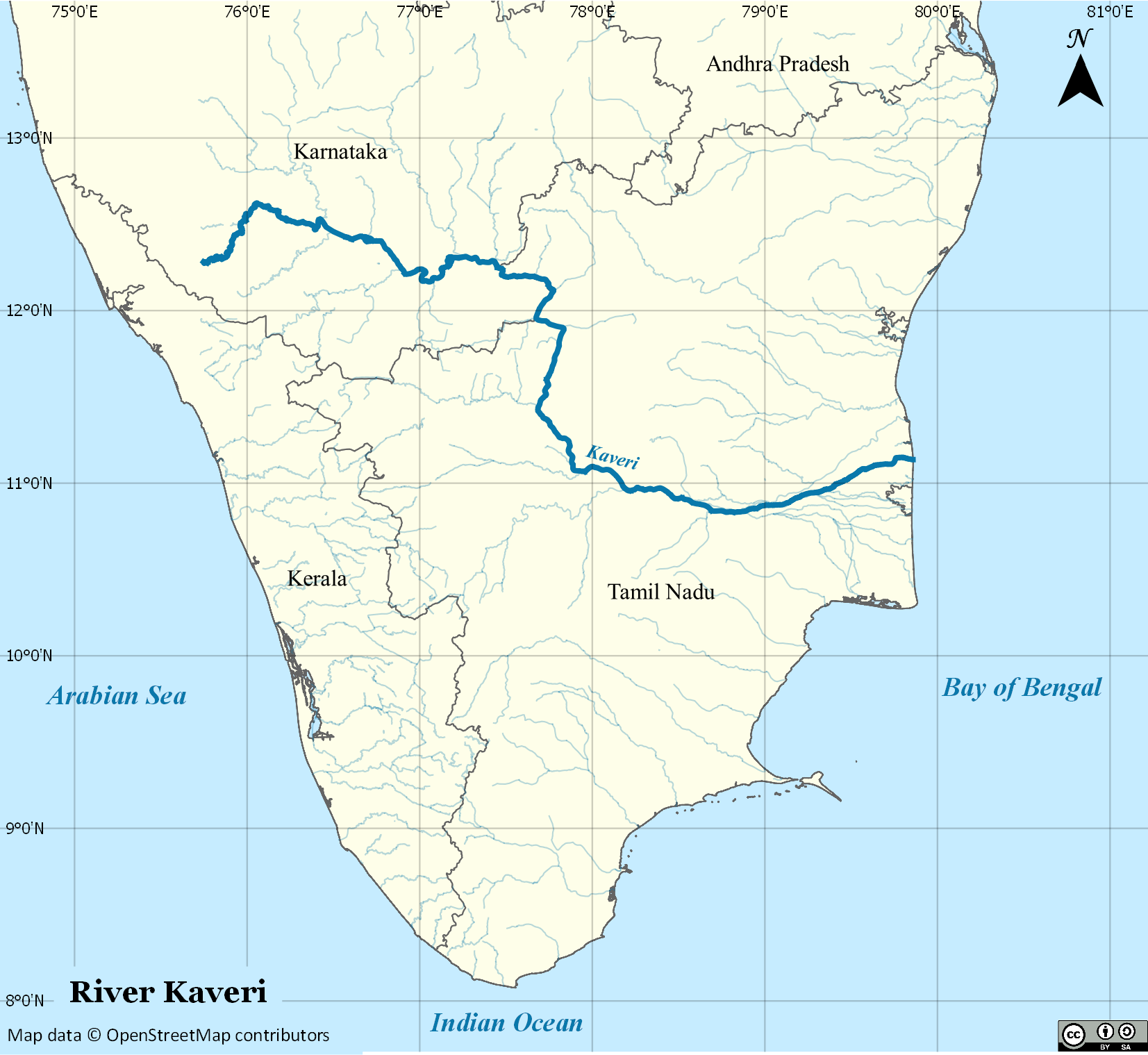 Map showing the path of river Cauvery (Kaveri) through the states of Karnataka and Tamil Nadu.